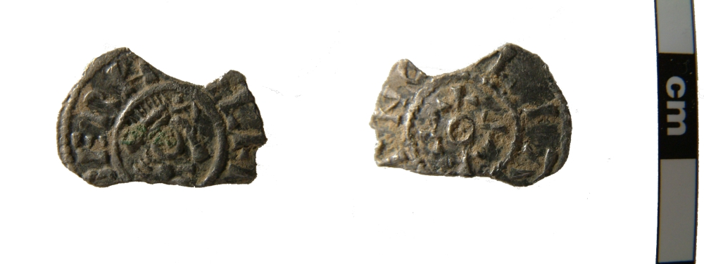 Coin of Berhtwulf, King of Mercia, portrait series c.843-c.848 AD. It is 19mm in diameter and incomplete, weighing 0.61g. Ref. North 414